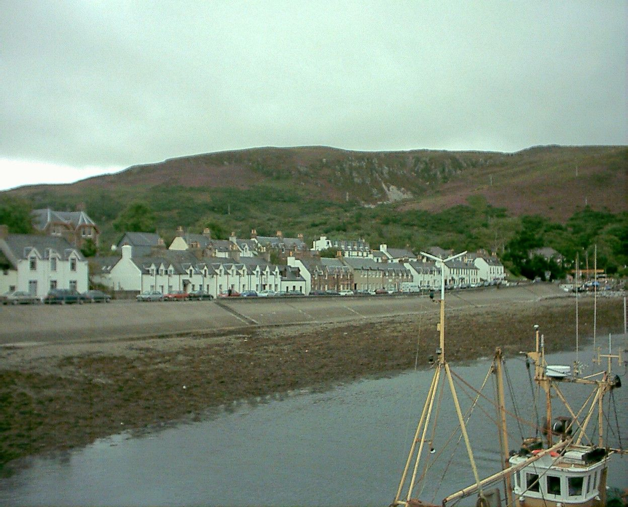 Ullapool, Scotland Author: Wojsyl